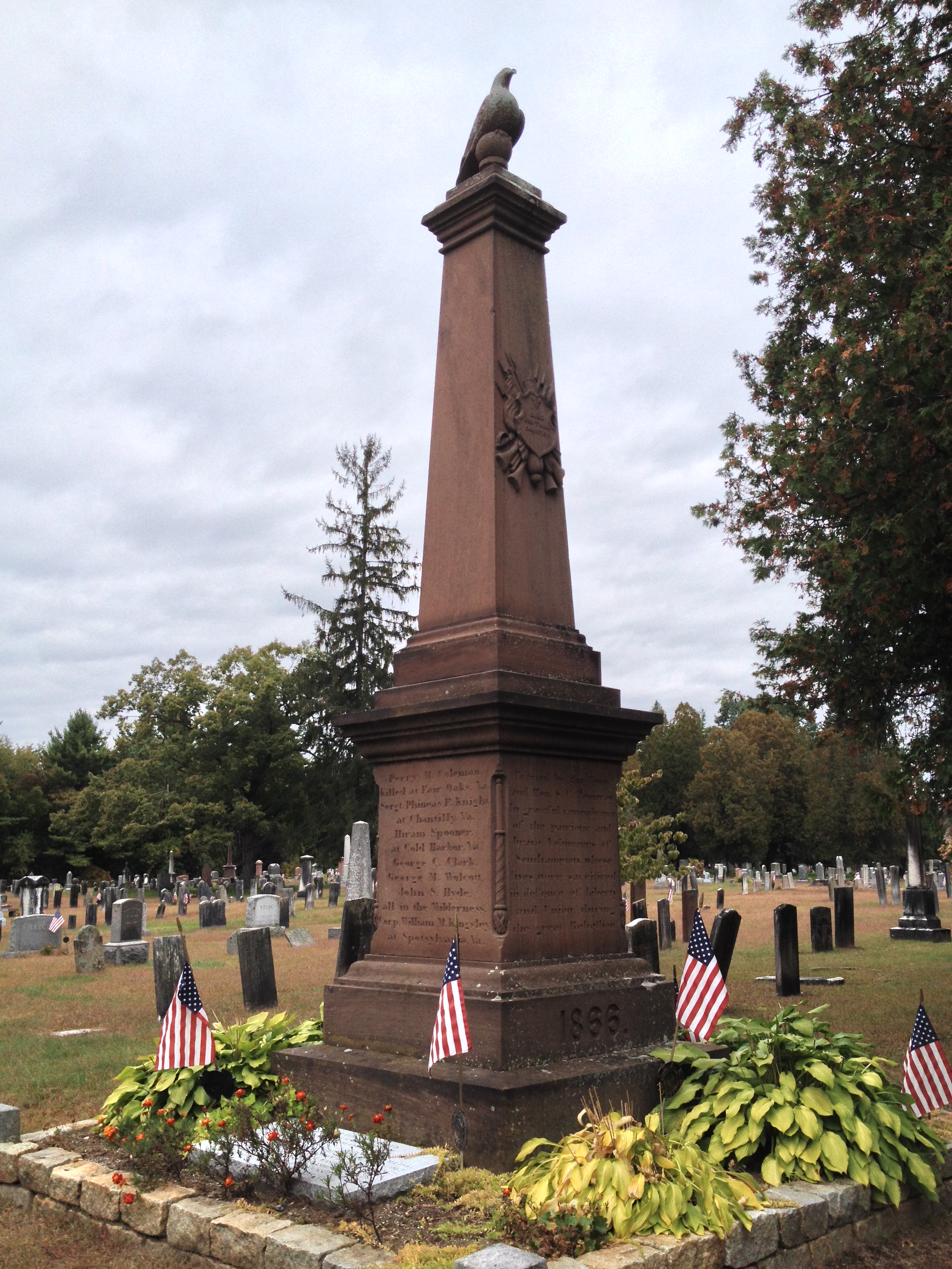 Center Cemetery, 178 College Hwy. (Route 10) Southampton